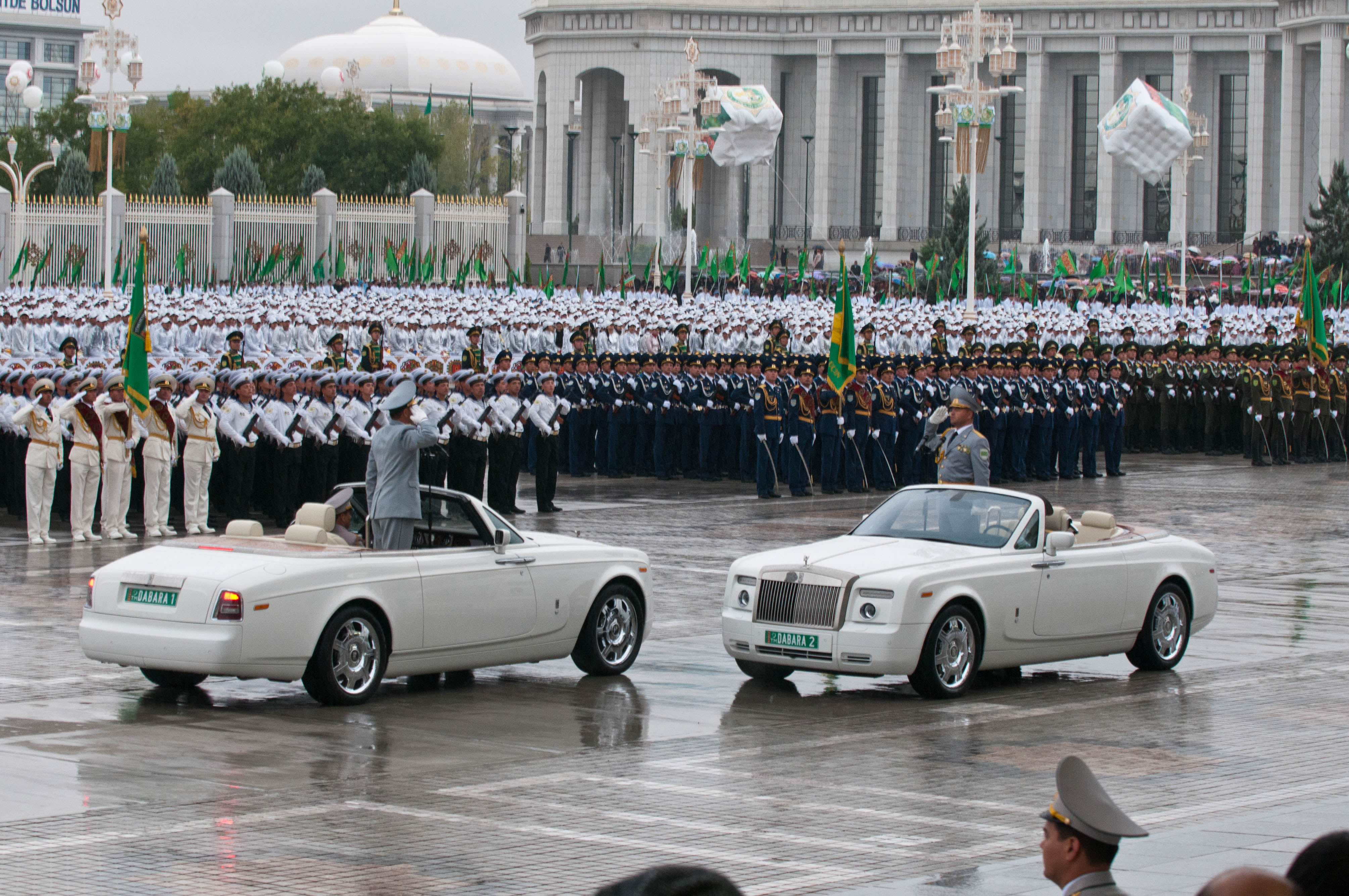 Celebrating the 20th year of independence in Turkmenistan